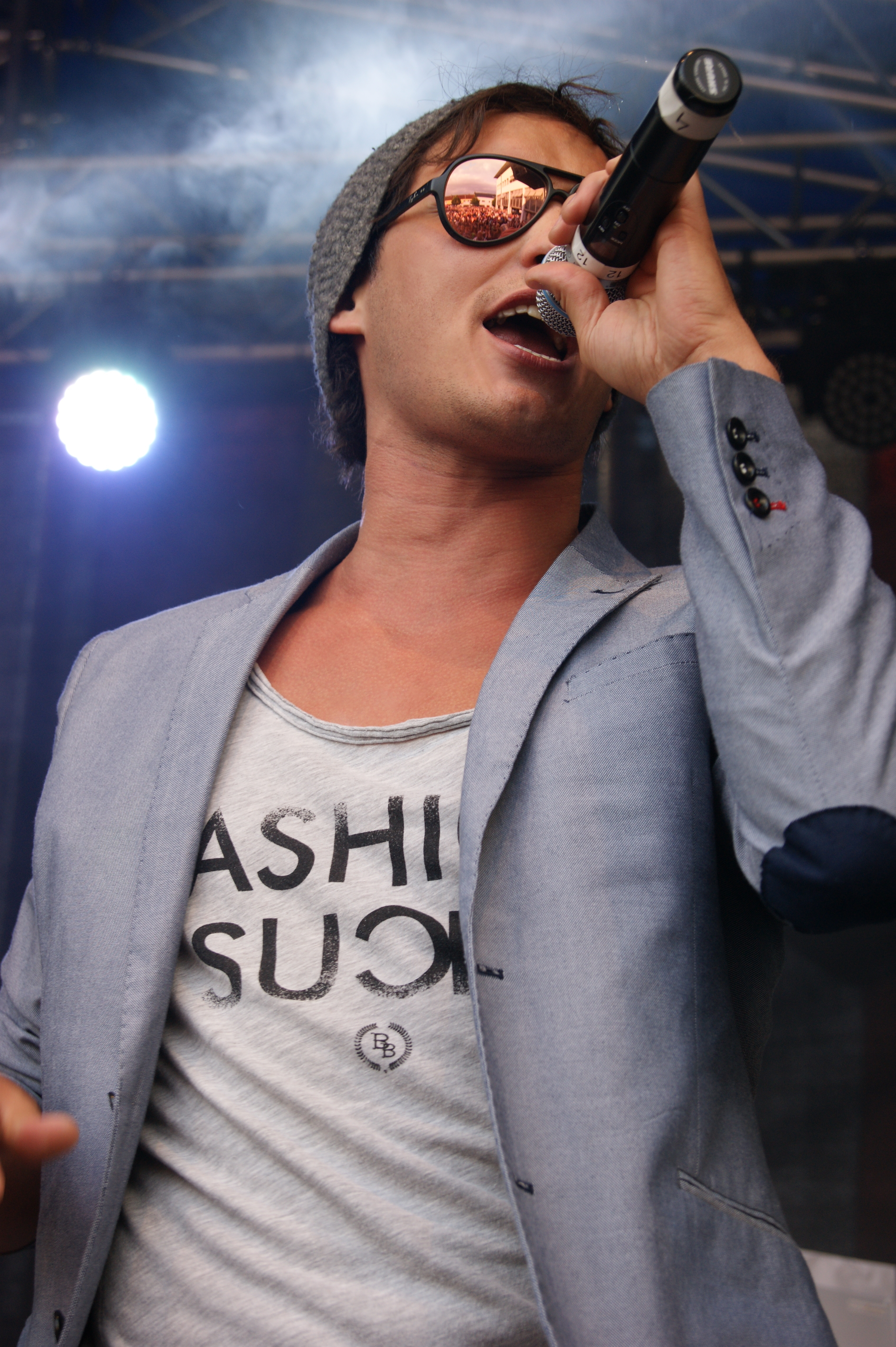 Auftritt in Marchtrenk, Oberösterreich